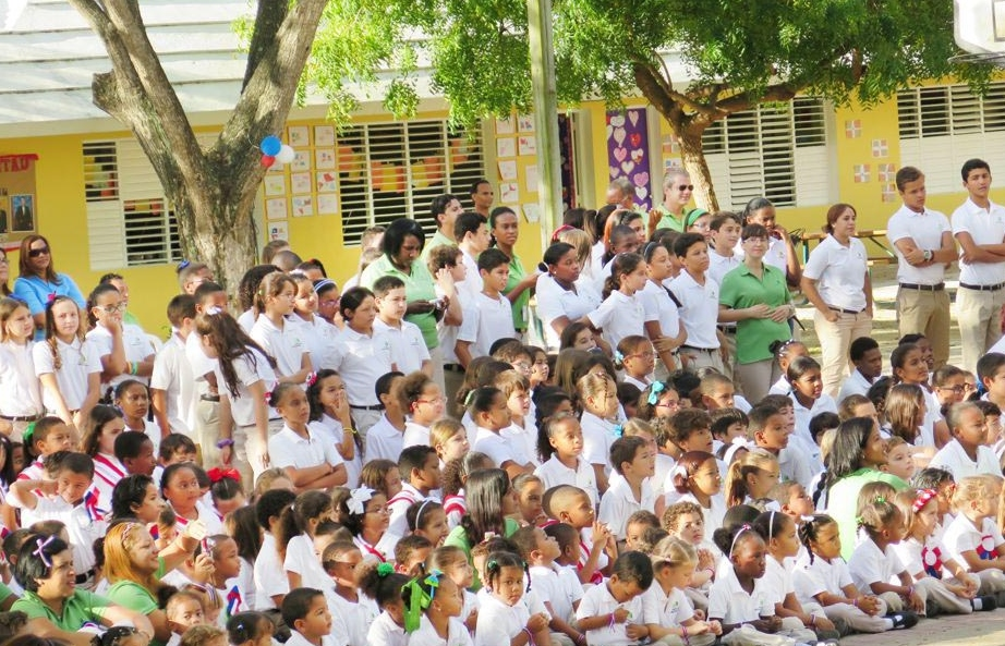 Students at Puntacana International School, a private school in the Dominican Republic